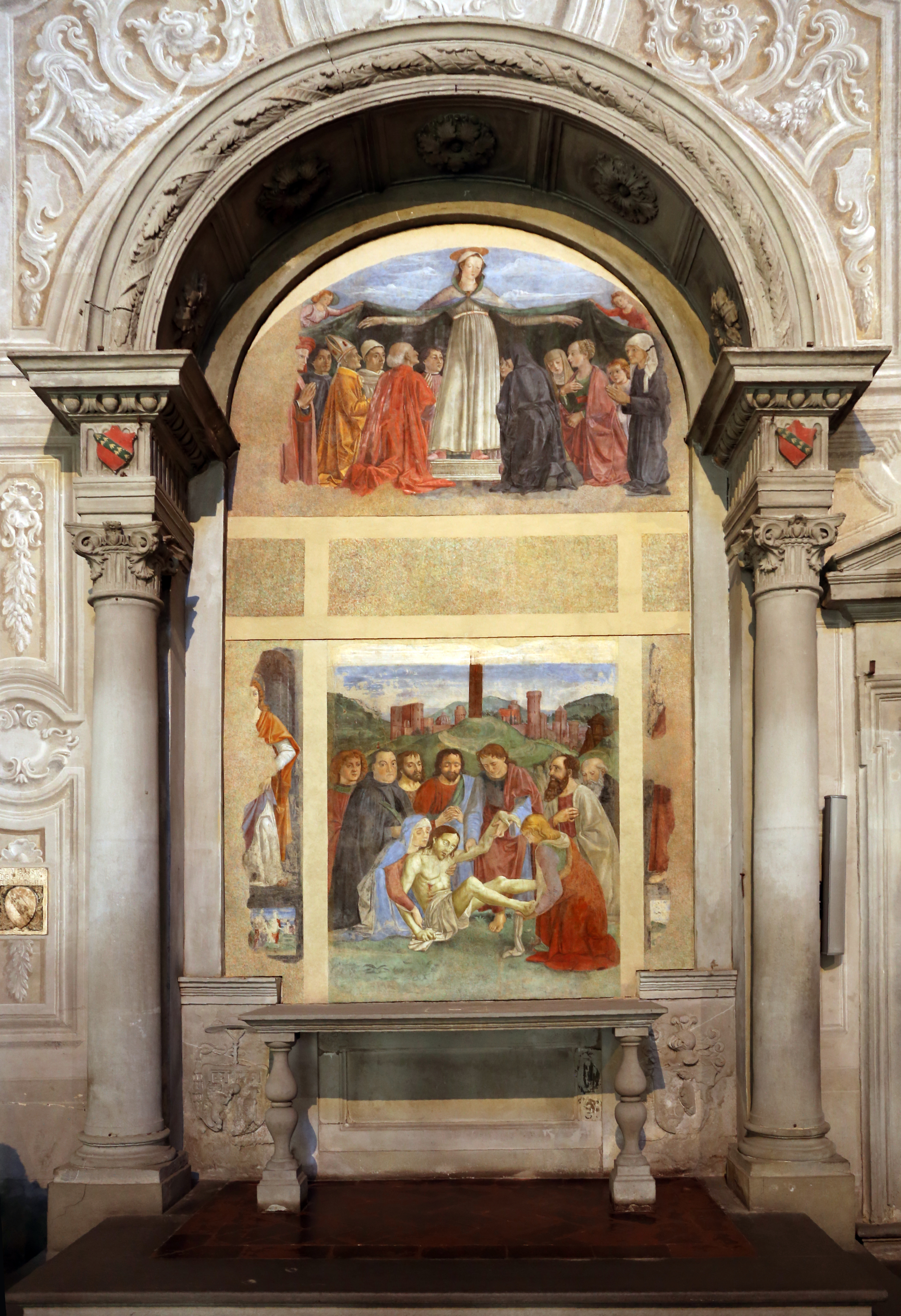 Ognissanti (Florence) - Interior